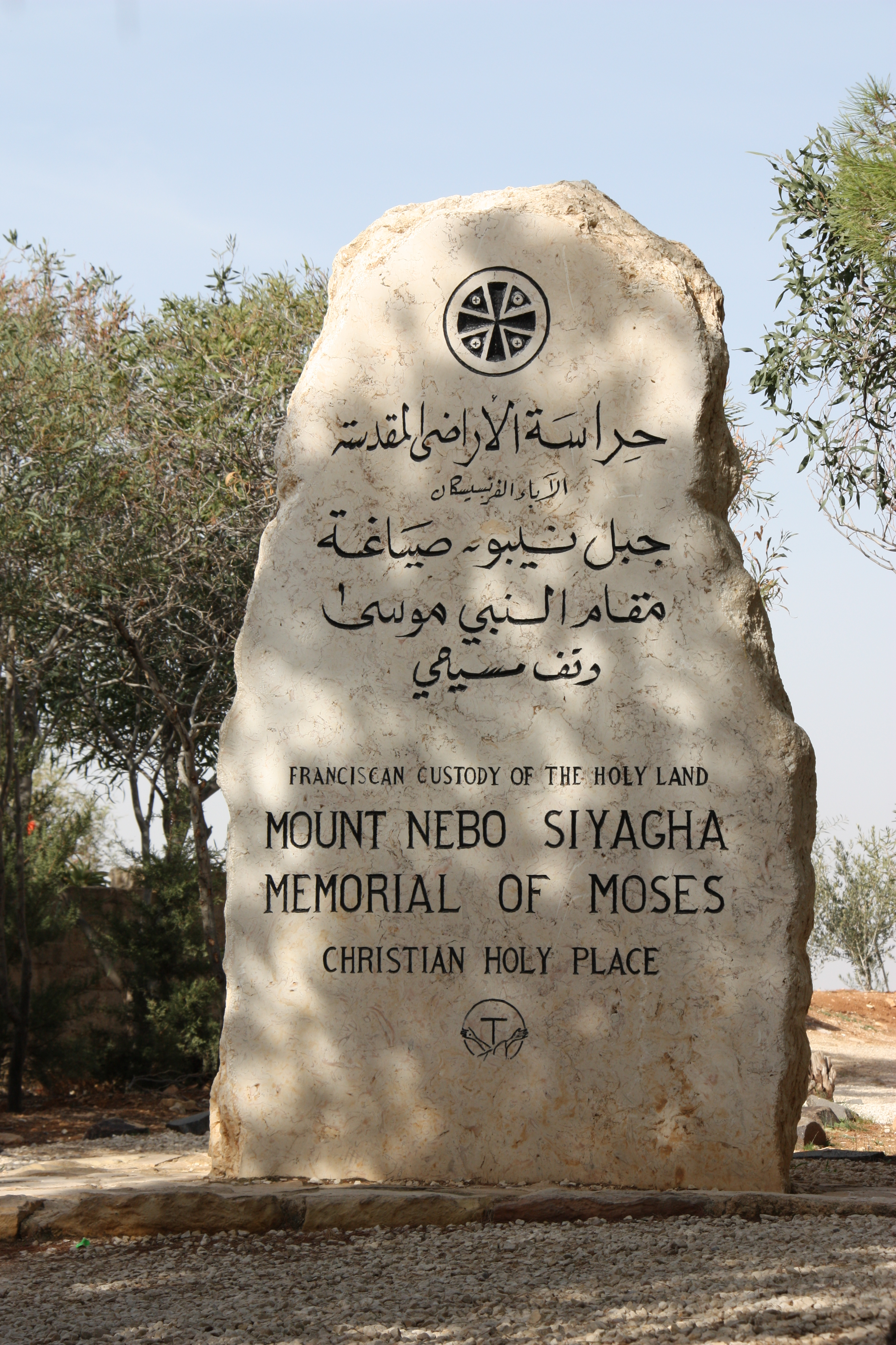 Mount Nebo, an elevated ridge in Jordan, approximately 817 meters above sea level.